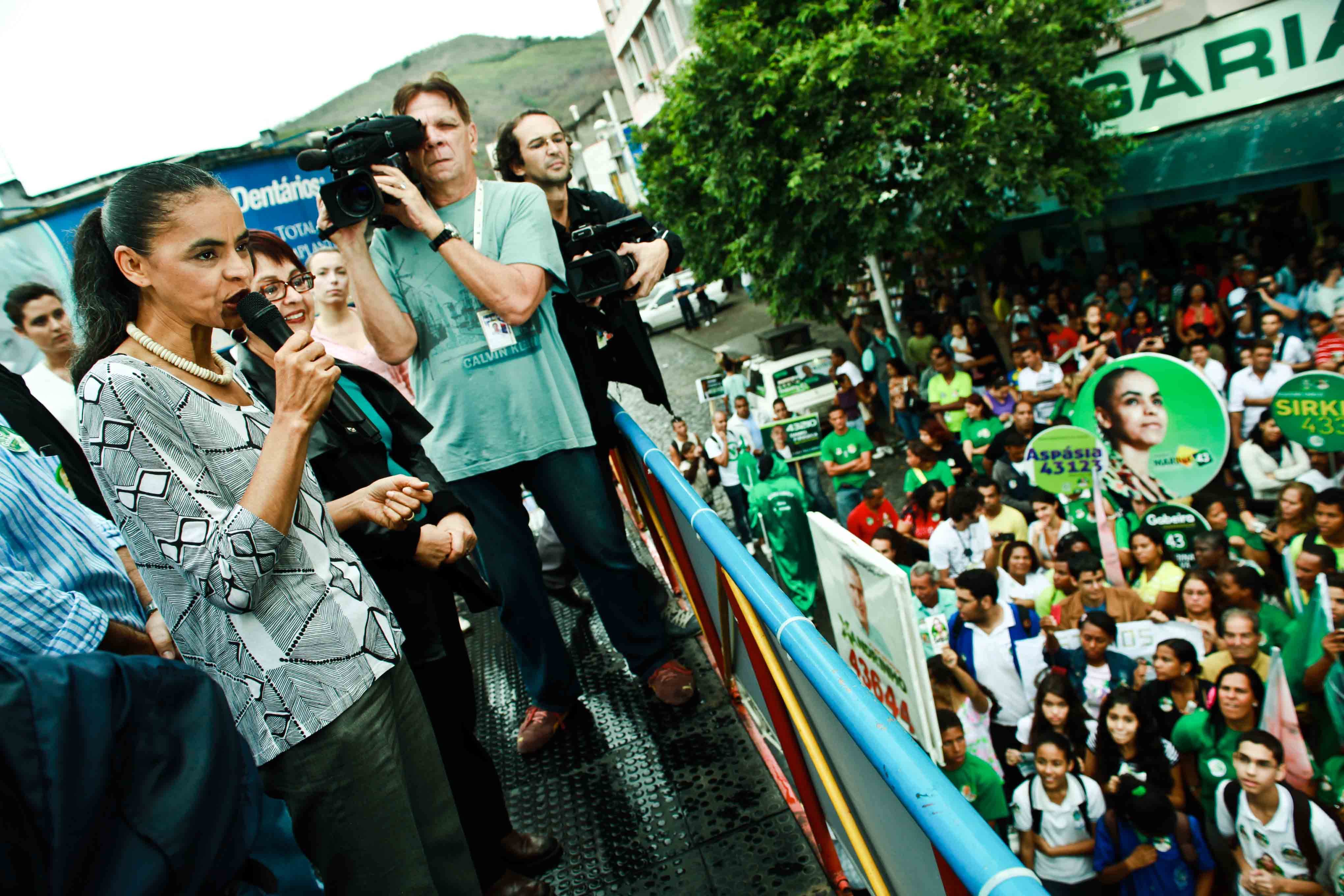 Marina Silva campaigns in Nova Iguaçu during her 2010 presidential campaign.